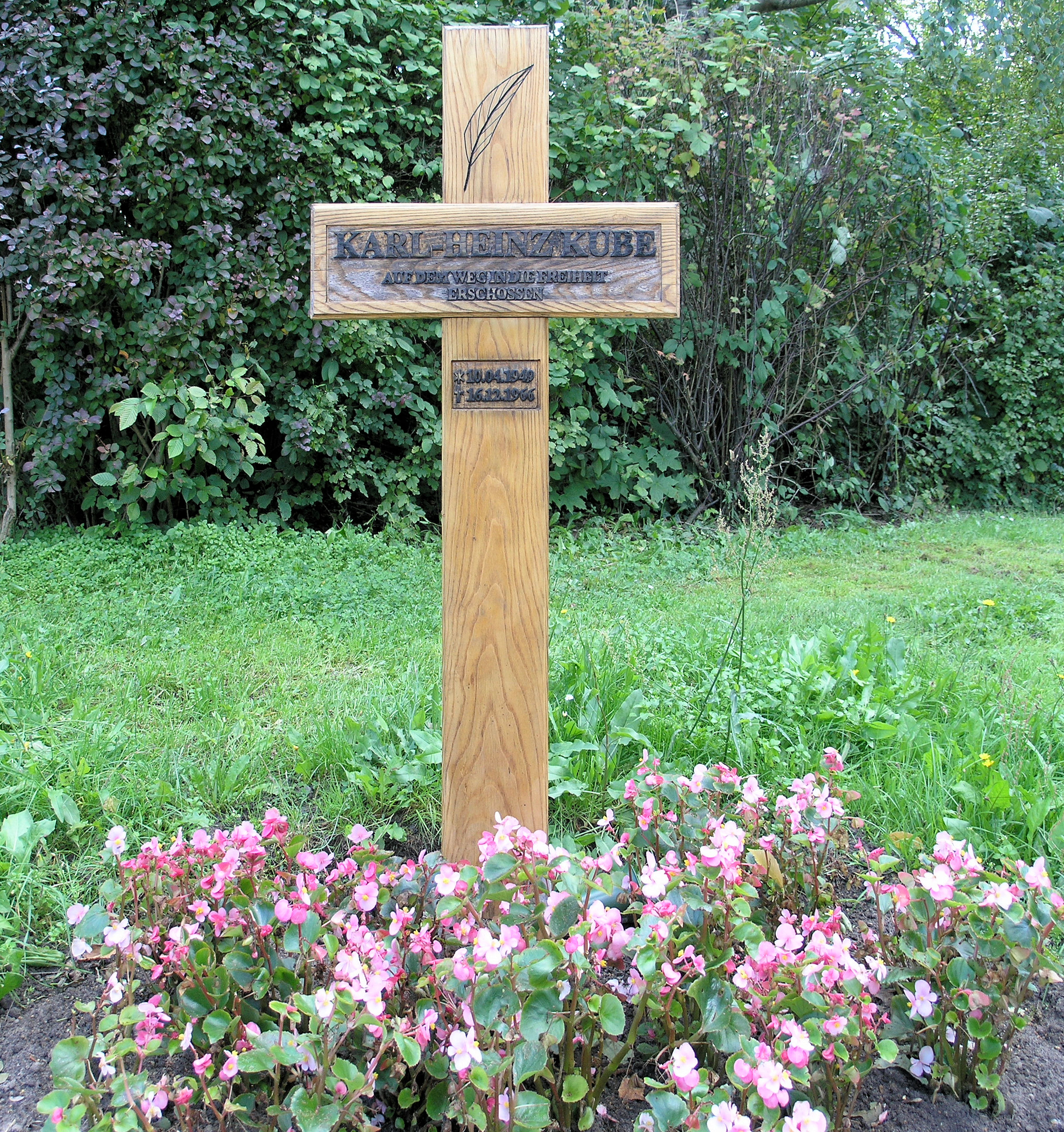 Memorial plaque, Karl-Heinz Kube, Berlepschstraße , Berlin-Zehlendorf, Germany Koordinate:52°25′15″N 13°13′34″E / 52.42083°N 13.22611°E